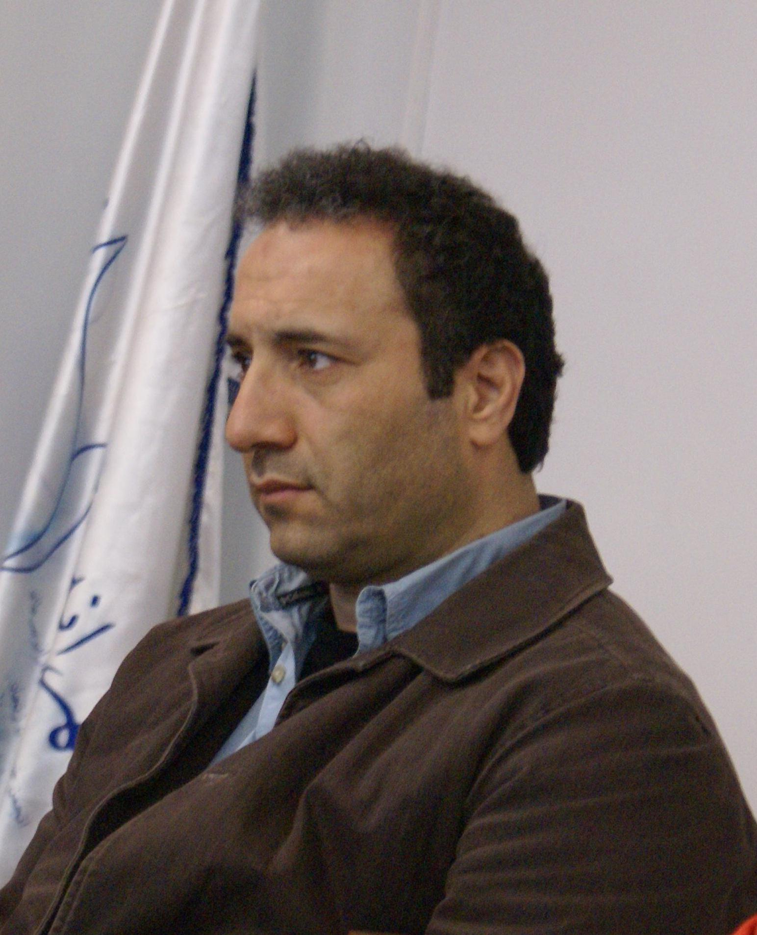 Reza mirkarimi iranian director